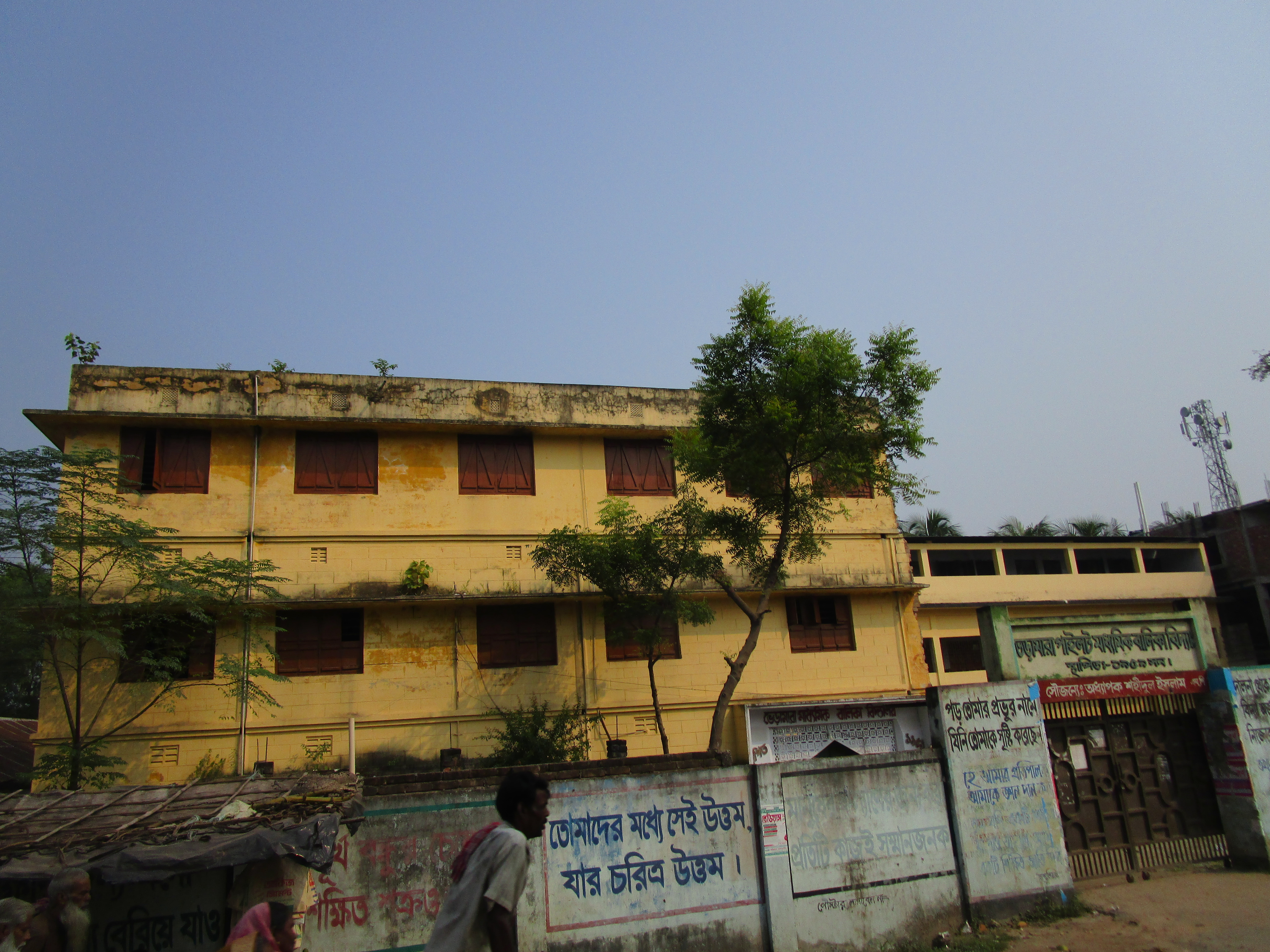 Veramara Girls High School